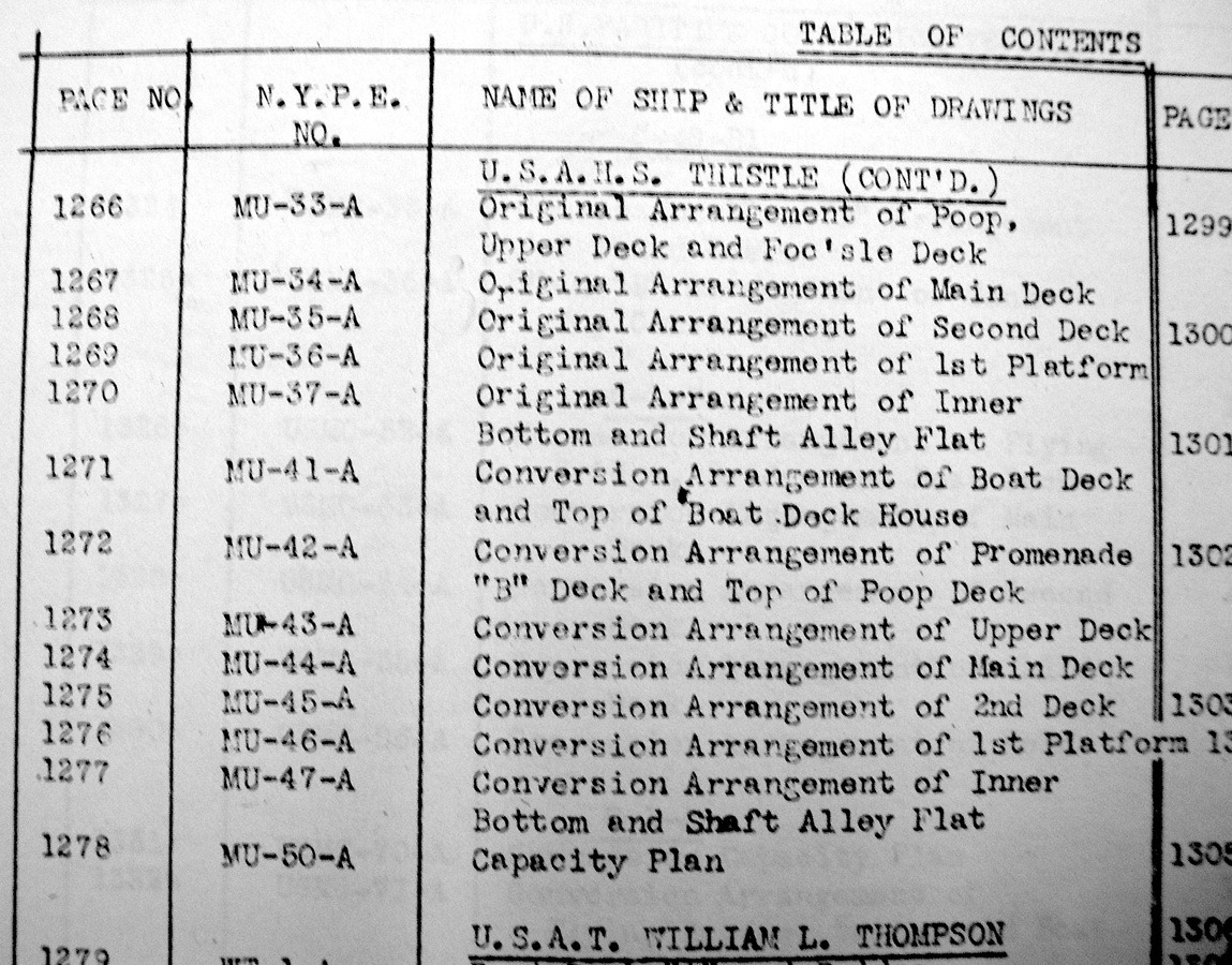 NYPOE ship conversion plans for USAHS THISTLE in part.